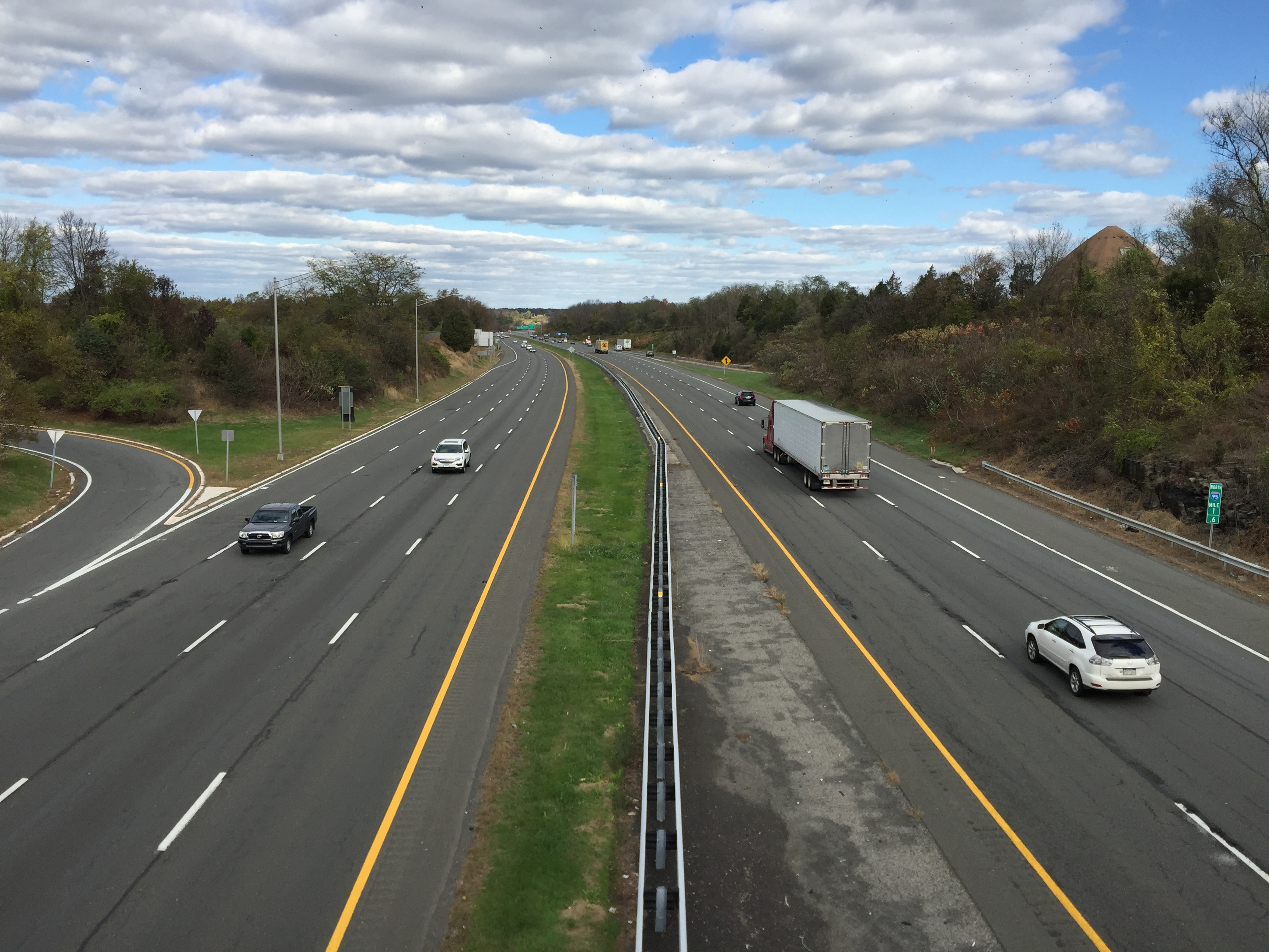 View north along Interstate 95 from the overpass for Bear Tavern Road (Mercer County Route 579) in Ewing Township, Mercer County, New Jersey